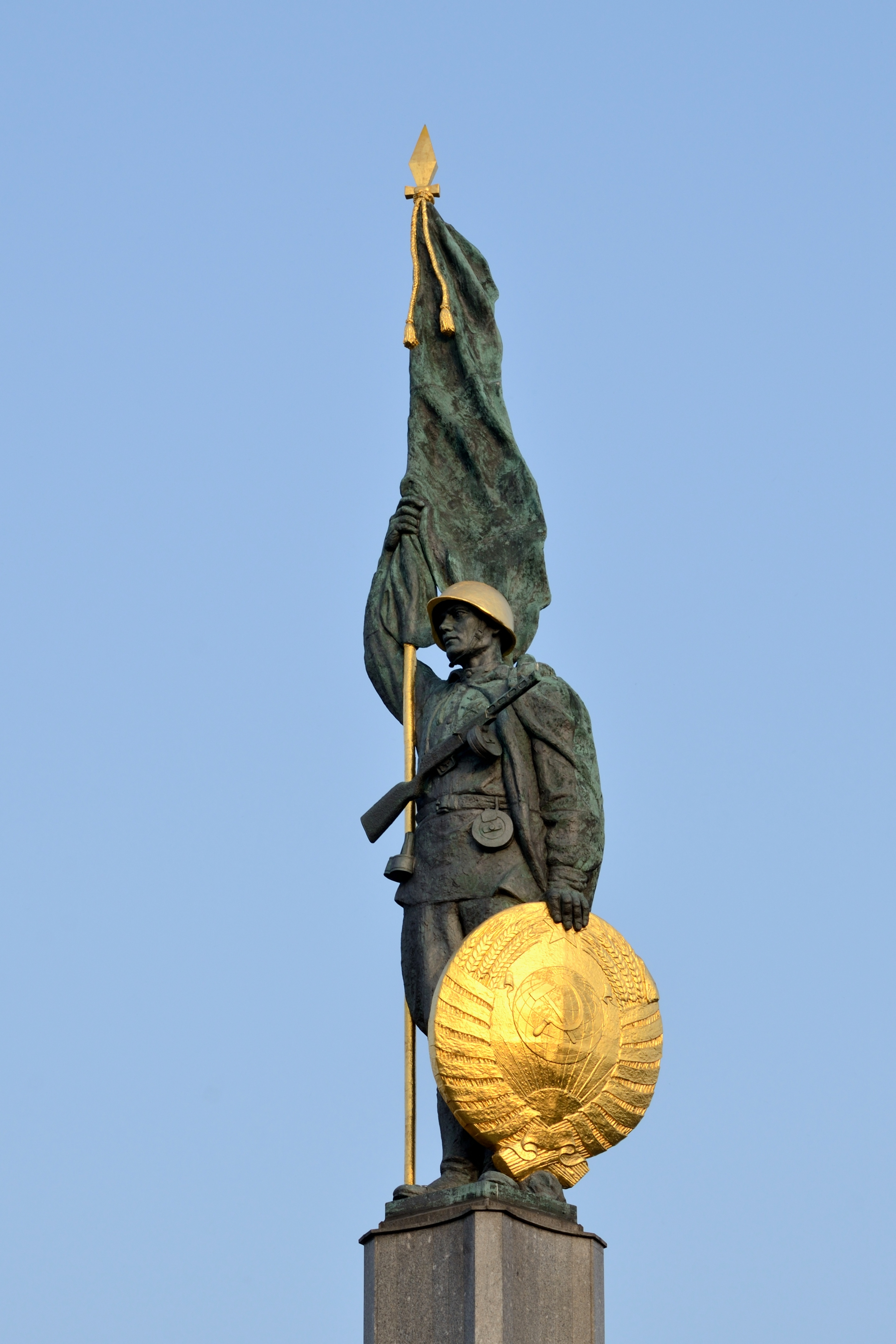 Soviet War Memorial, Schwarzenbergplatz, Vienna